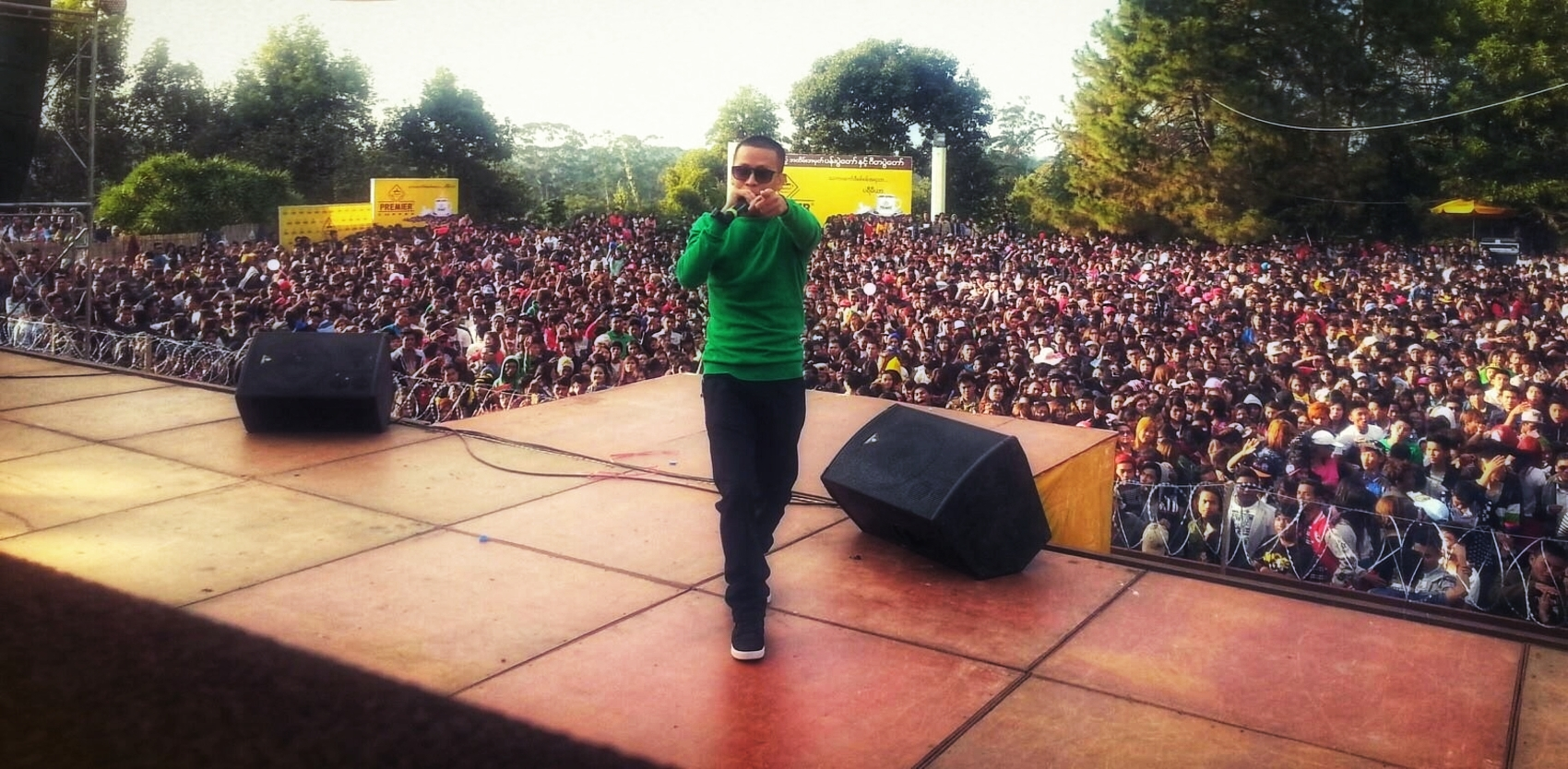 Burmese hip hop singer Yan Yan Chan perform in a concert at Yangon.